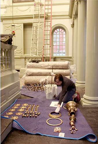 Newmans LTD Works to restore metal artifacts from Touro Synagogue